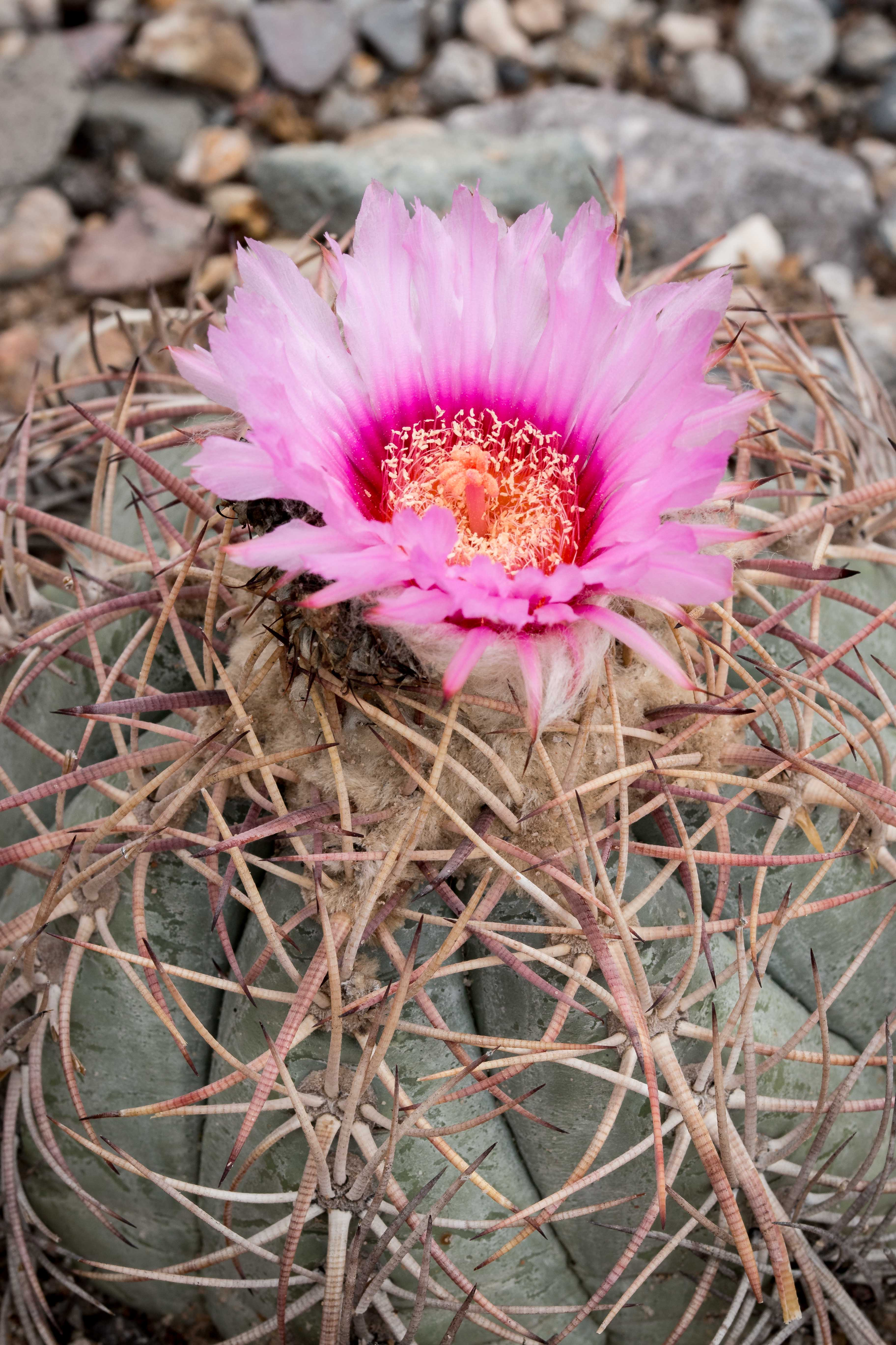 Flower on a Echinocactus horizonthalonius cactus